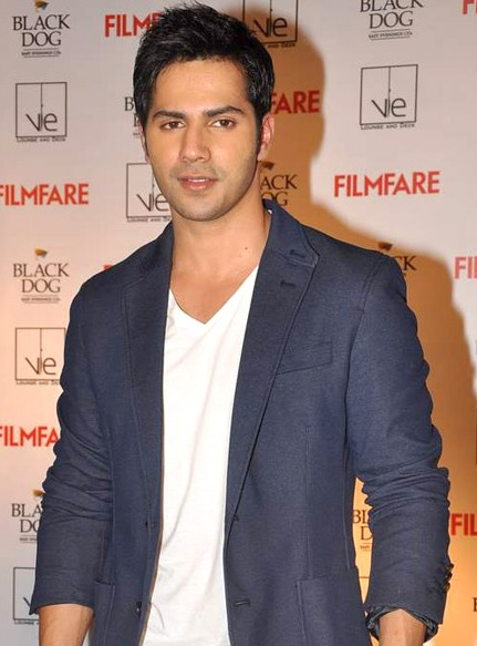 Varun Dhawan from "Student Of The Year" team launches Filmfare's latest issue